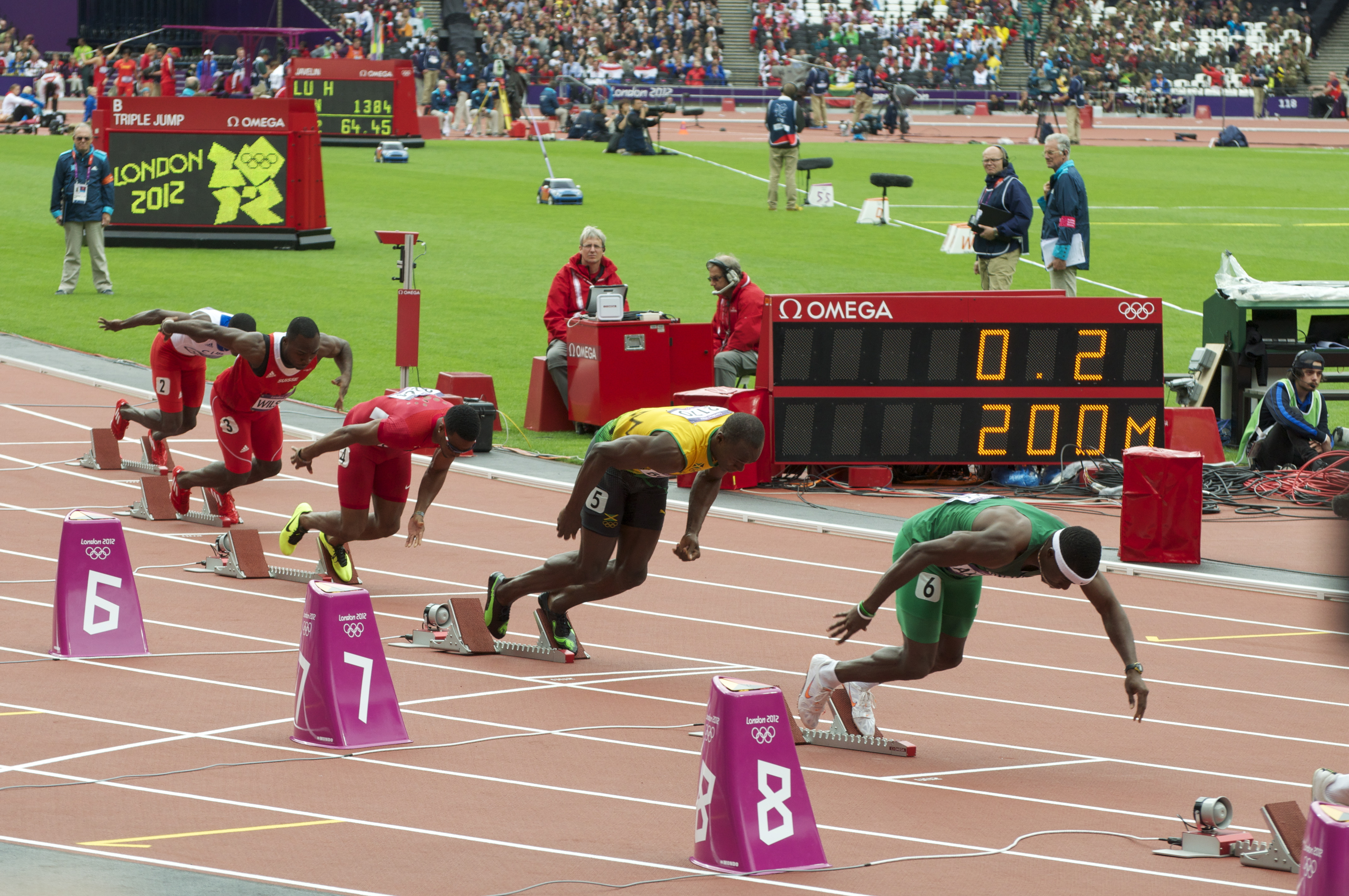 The start of heat 1 of the 200 metres at the 2012 Summer Olympics. Usain Bolt is in lane 5